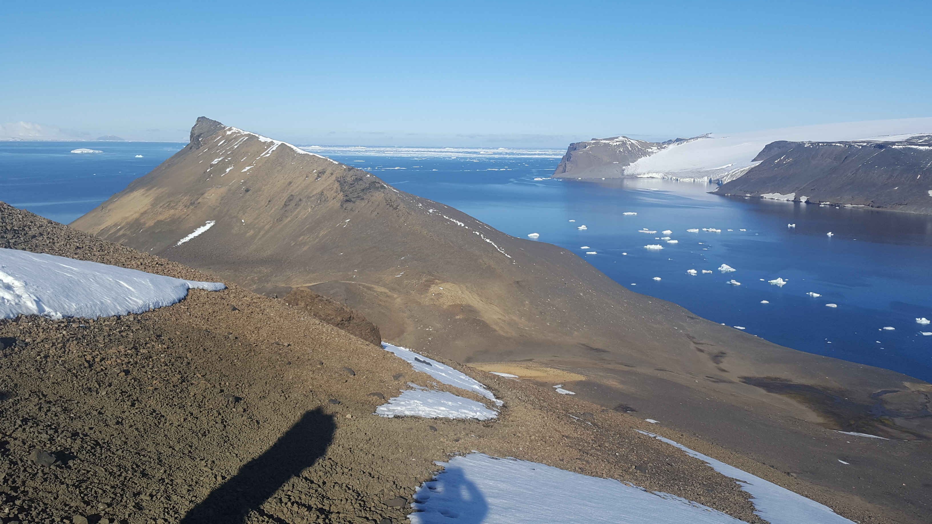 View form top of volcanic peak